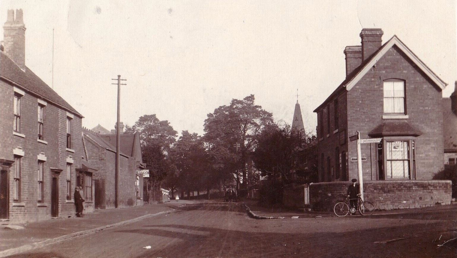 The Worcestershire village of Blakedown, an old card posted in 1917, showing the junction of the main street on Birmingham Road with Belbroughton Road